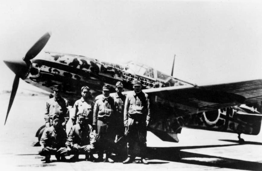 Imperial Japanese Army Air Force aircrew with a Kawasaki Ki-61 Hien (Allied code name "Tony") at an unidentified airfield. This aircaft was probably assigned to the of the 244th Squadron. Note the (at least) 12 "kill" markings below the cockpit.